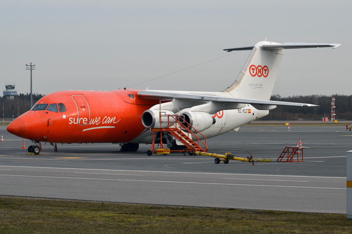 TNT Airways, EC-ELT, BAe 146